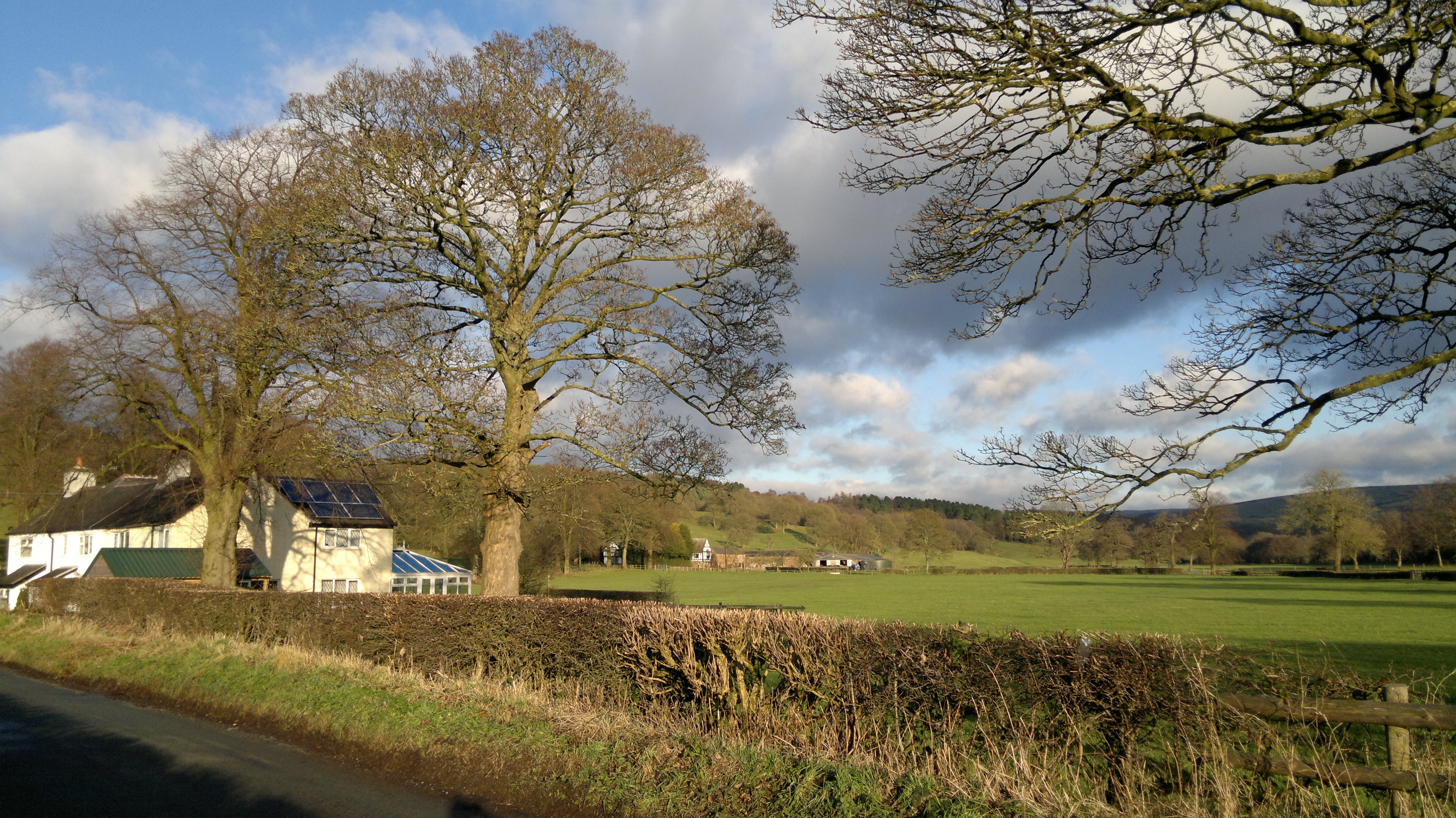 Looking towards site of old Cistercian Abbey, from Abbey Green